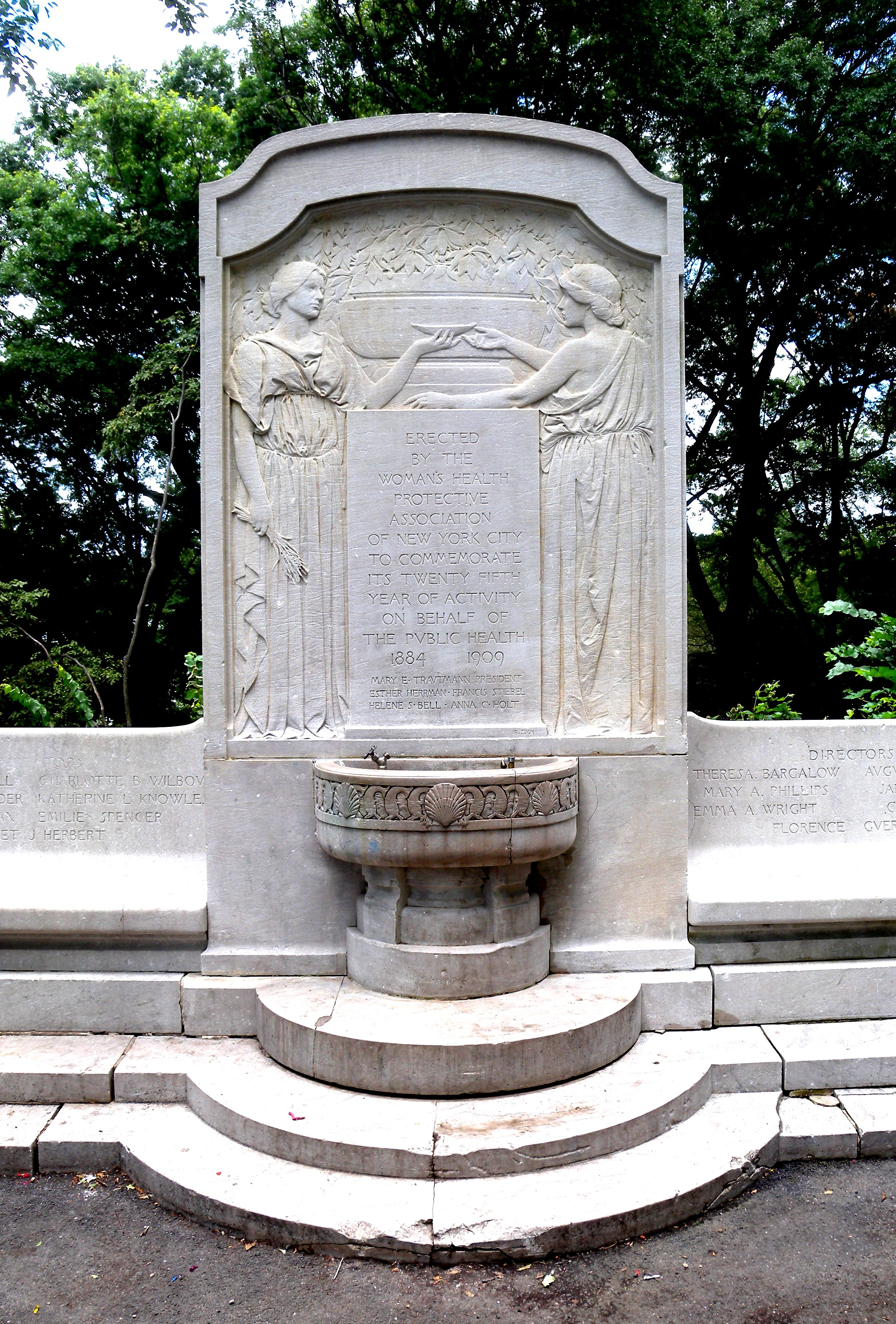 Looking west at commemorative fountain at the foot of West 116th Street on a sunny afternoon.